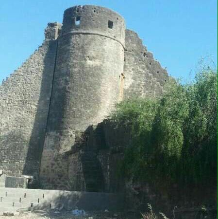 Fort of sandhan Jagir, which is sitvated in Viilage of Sandhan, Abdasa Taluka,Dist Bhuj Kutch-Gujarat